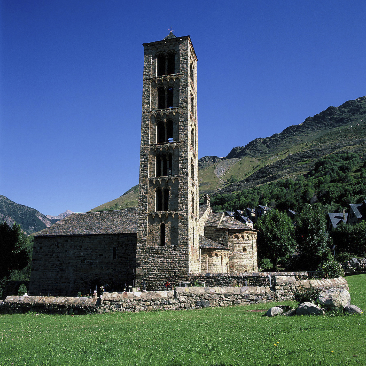 Catalan Romanesque Churches of the Vall de Boí